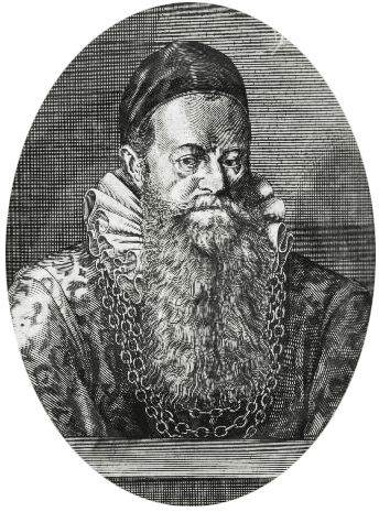 French botanist Gaspard Bauhin (1550-1624)